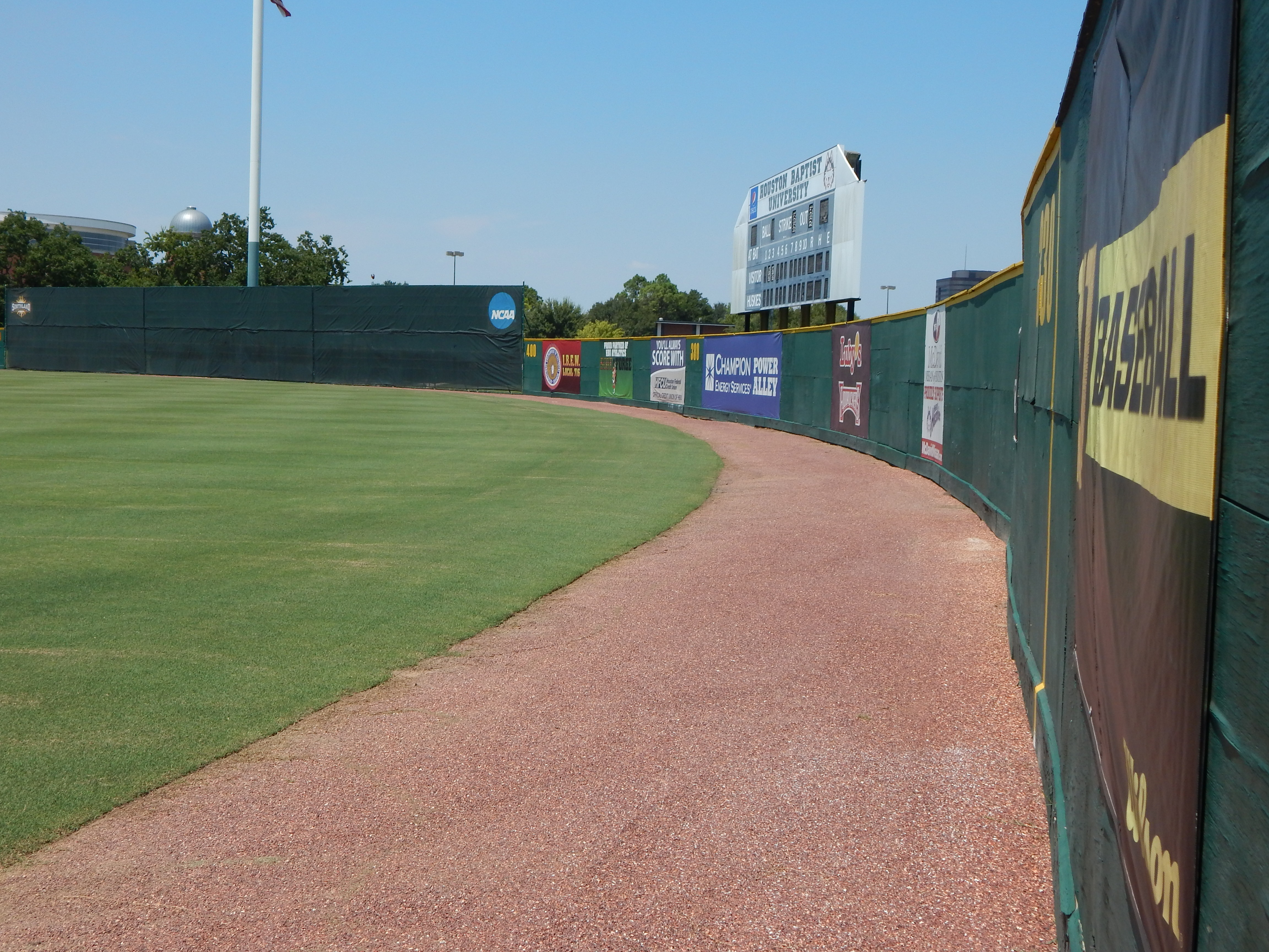 View of outfield warning track from right field line, Husky Field - Baseball (Houston Baptist University)